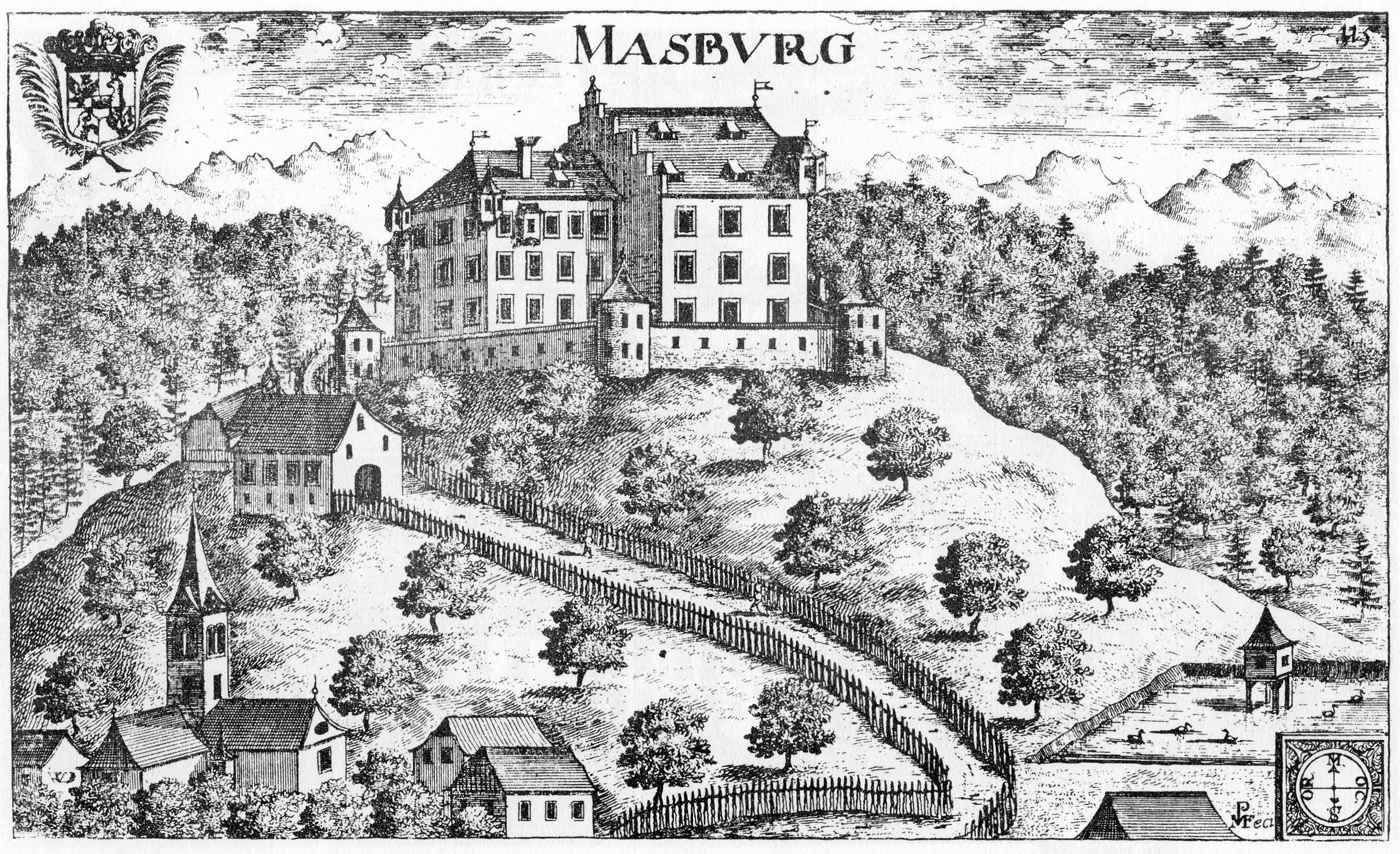 Castle of Moosburg in Moosburg (Kärnten) / Carinthia / Austria / European Union.